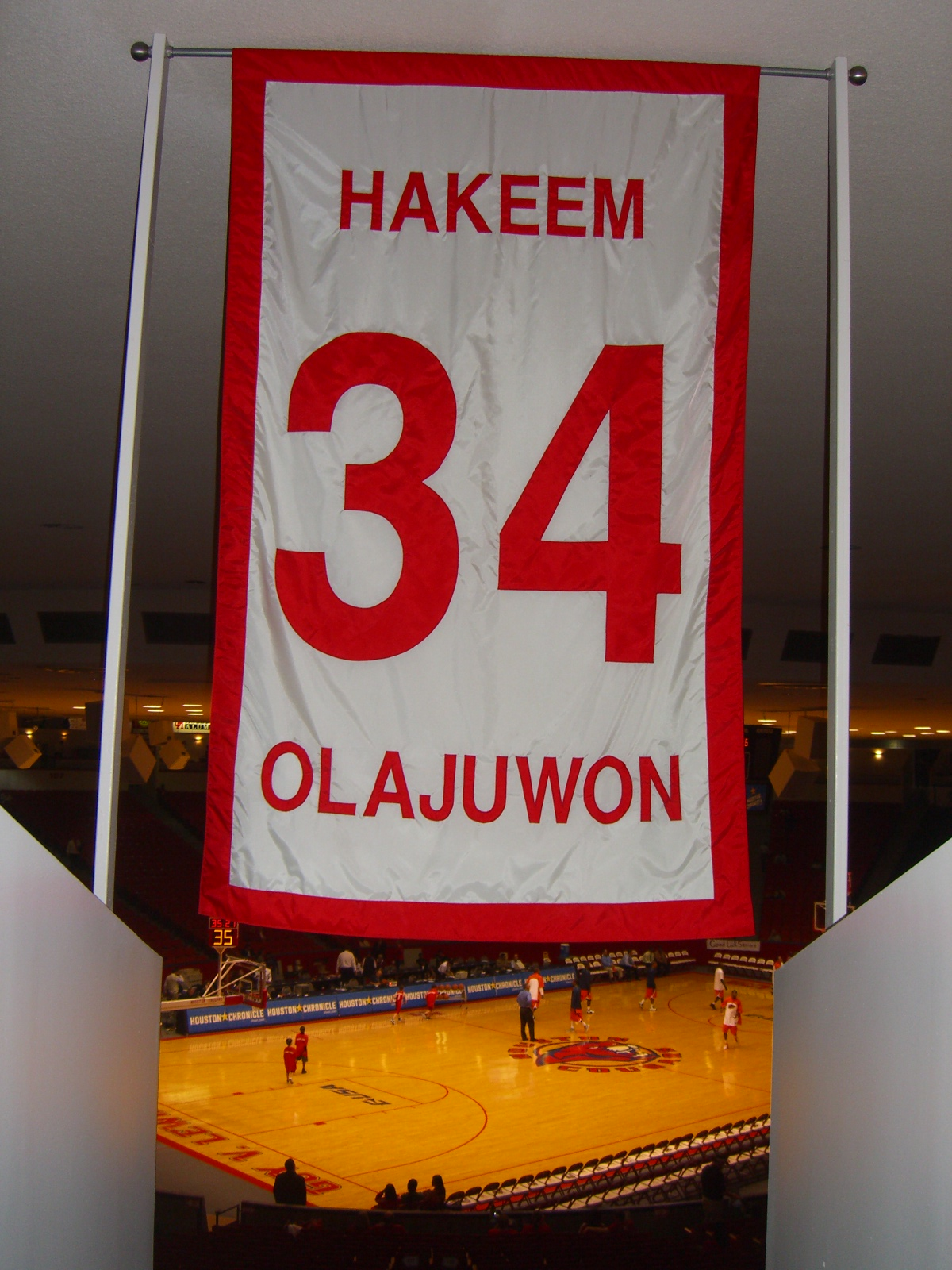 Hakeem Olajuwon's retired number at the University of Houston in Hofheinz Pavilion.